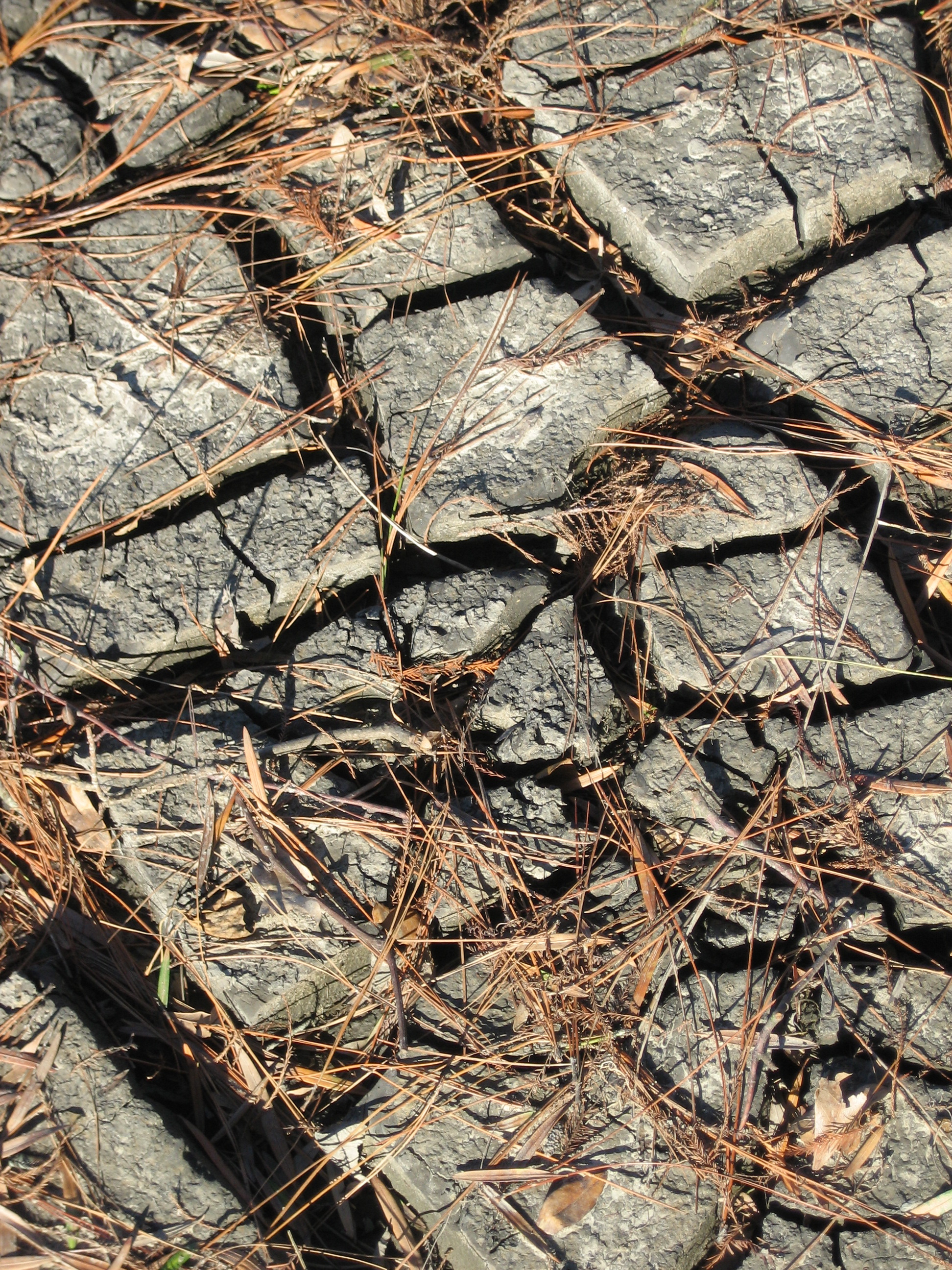 New Orleans after Hurricane Katrina: Scene in flood devastated Lower 9th Ward residential neighborhood: Close up of caked flood silt and pine needles on ground.